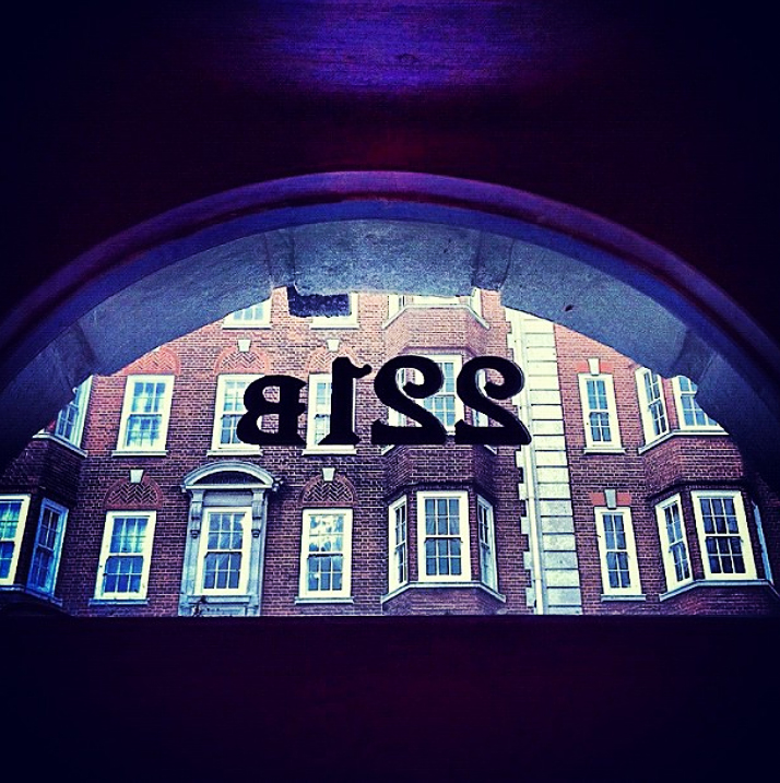 Photograph from inside of the door of Baker Street 221B